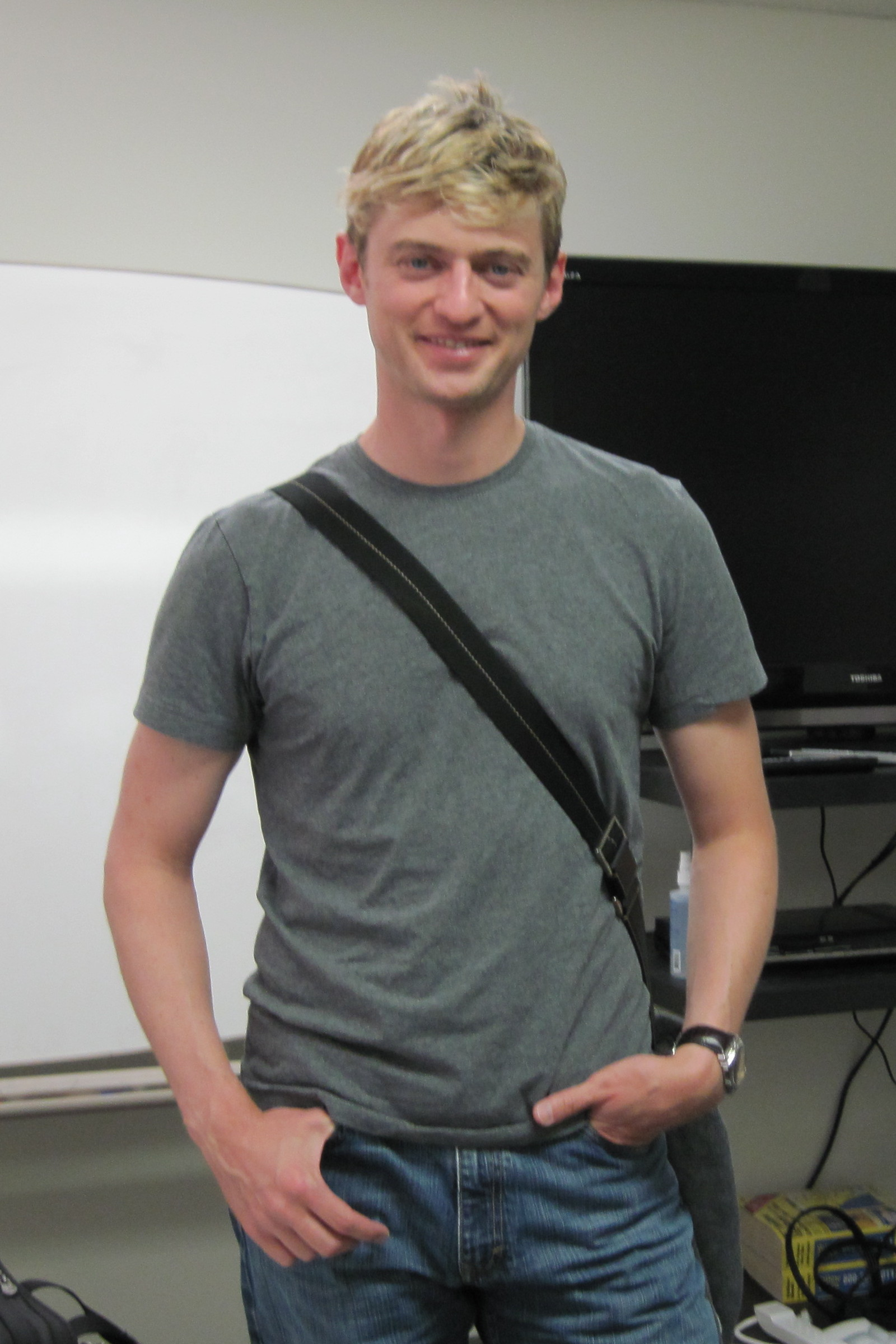 A picture of voice actor Crispin Freeman after teaching one of his classes at the Japan Visualmedia Translation Academy - Los Angeles.